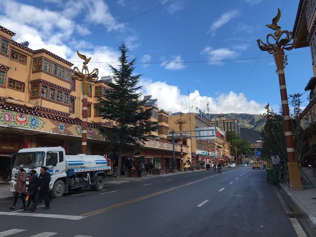 Jinxianzi Rd